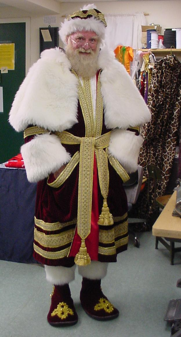 Old Fashioned or European-Style Santa Suit, Watermark (painstakingly :-) ) removed by Ali'i on 15:00, 14 March 2008 (UTC) {}